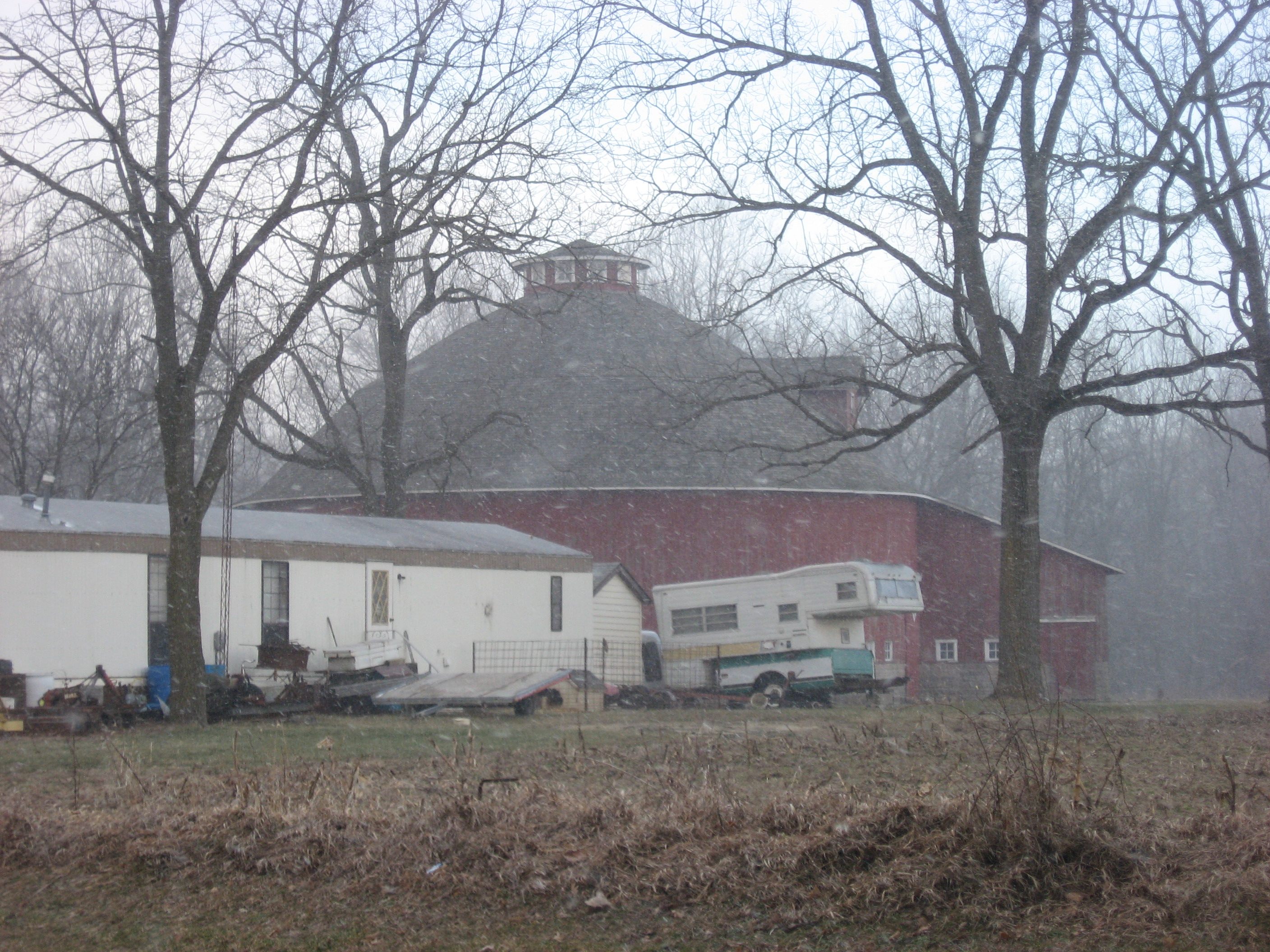 Roadside view of the John Haimbaugh Round Barn, located on the western side of Indiana State Road 25 at the E400N intersection north of Rochester in Newcastle Township, Fulton County, Indiana, United States. Built in 1914, it is listed on the National Register of Historic Places.